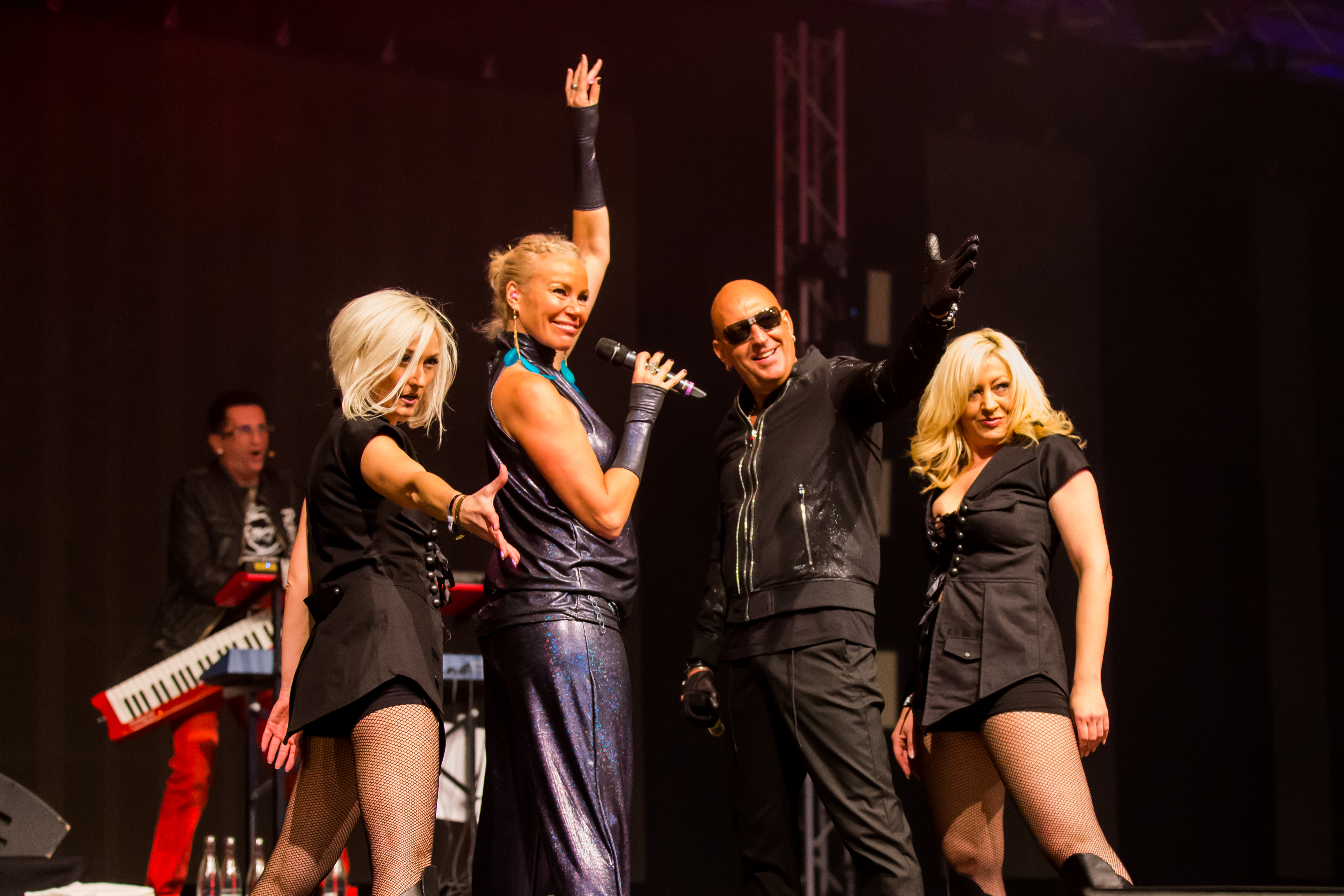 sunshine live "Die 90er - Live On Stage" Maimarkthalle Mannheim DJ Falk, Magic Affair, Captain Hollywood Project, Haddaway, Masterboy, 2 Unlimited, Marusha, Charly Lownoise